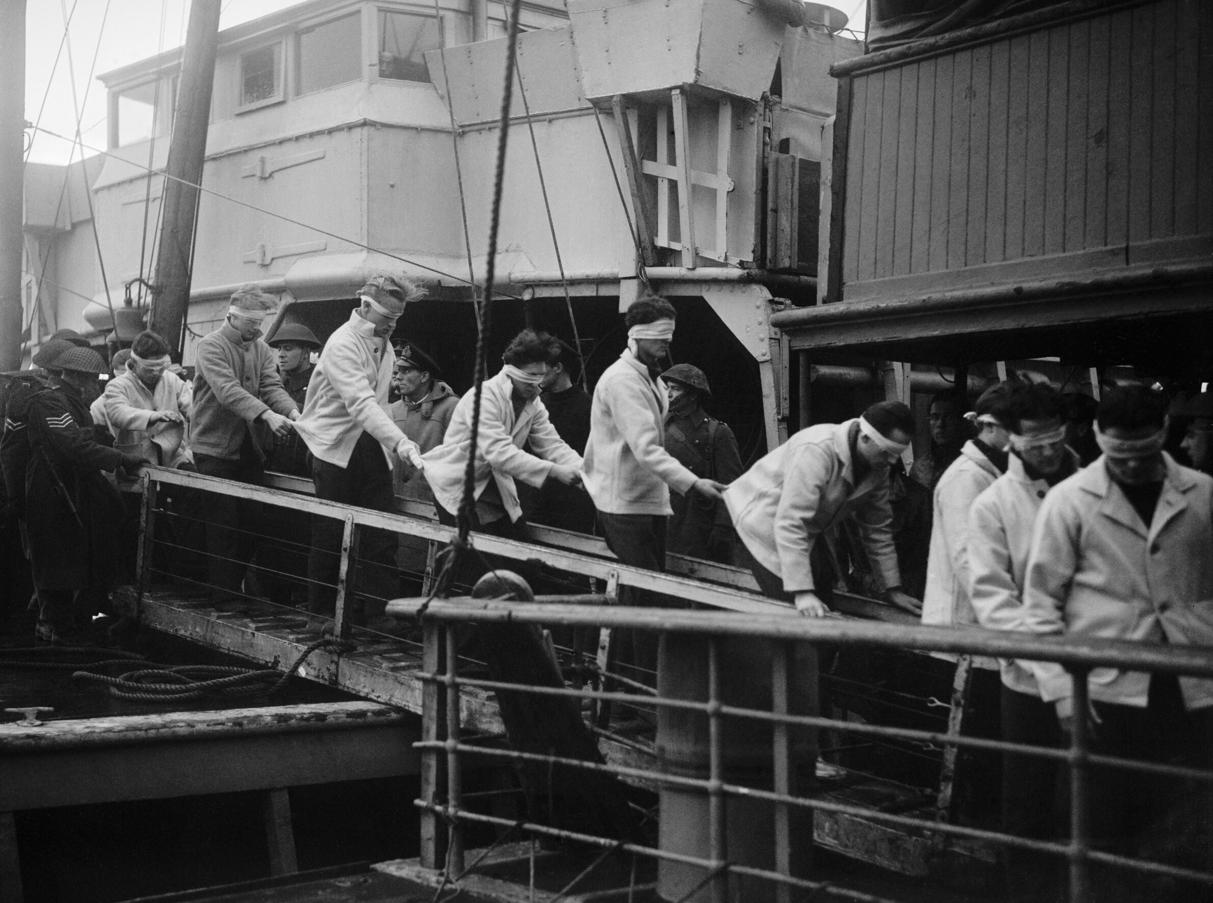 Scharnhorst Survivors at Scapa Flow, 2 January 1944 Blindfolded SCHARNHORST survivors, in merchant seaman rescue kit, walking down a gang-plank from the SS St Ninian on their way to internment.